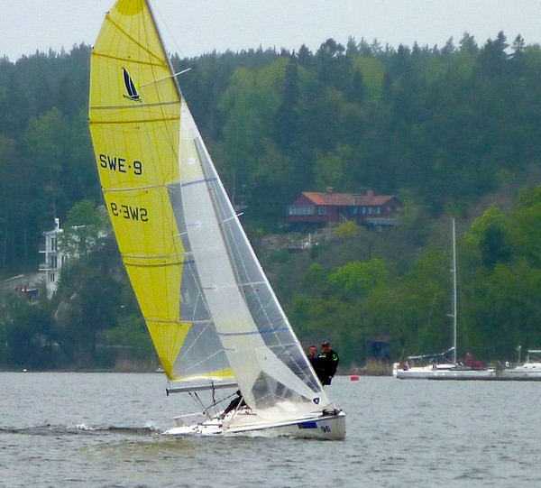 B&R 23 sportsboat SWE9 crossing finish line at Lidingö Runt 2013